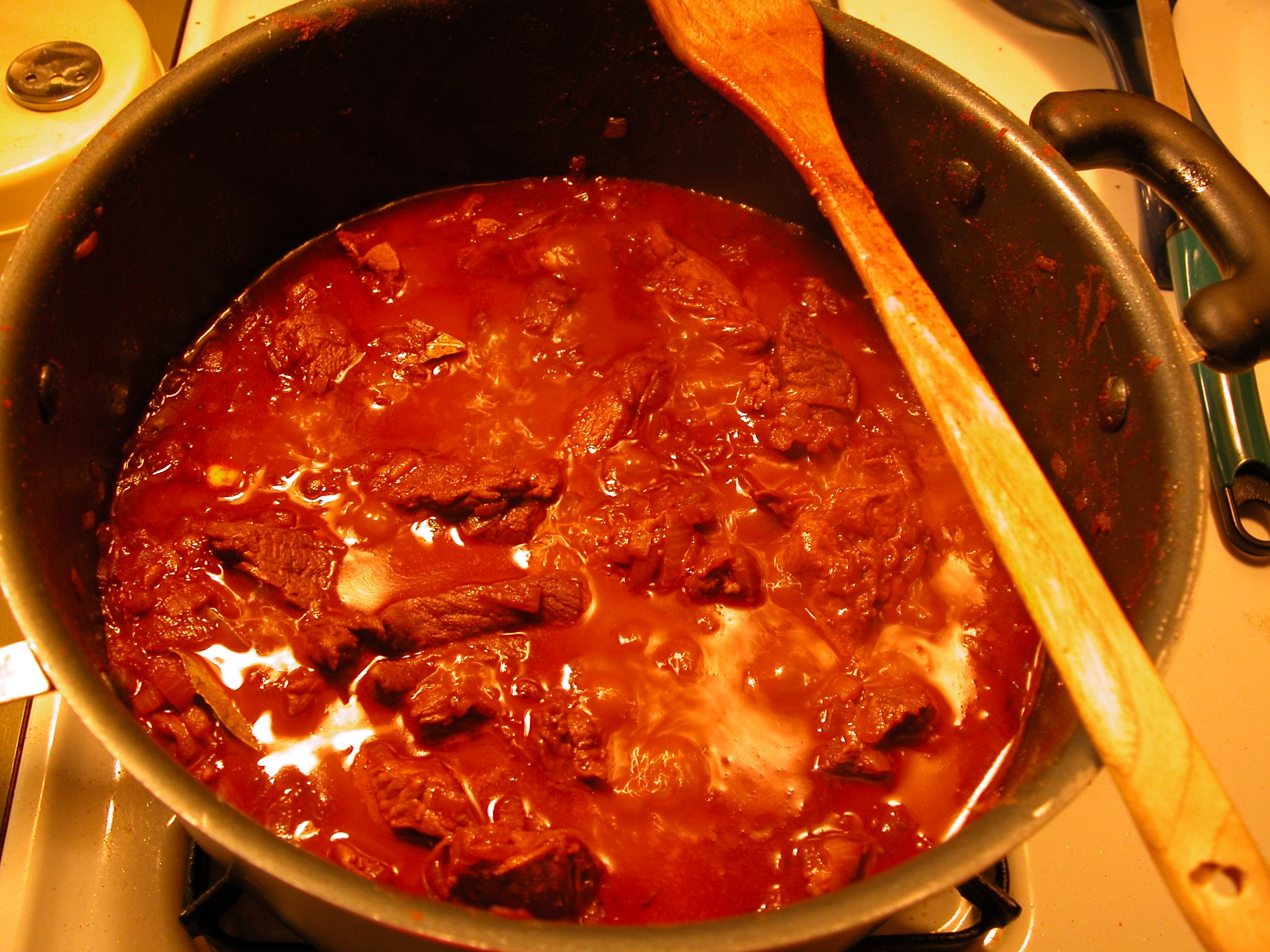 Czech beef goulash in the process of making.